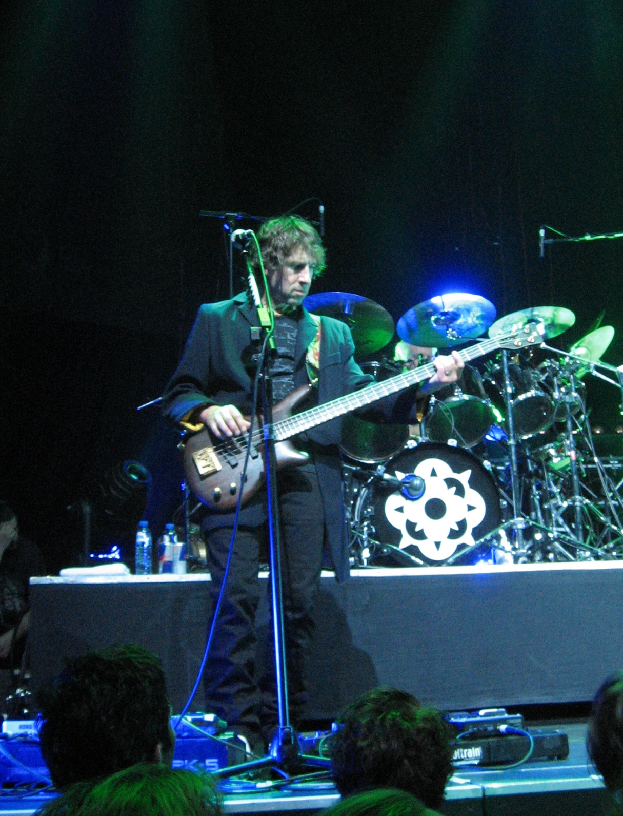 Pete Trewavas playing bass at the Paradiso in Amsterdam